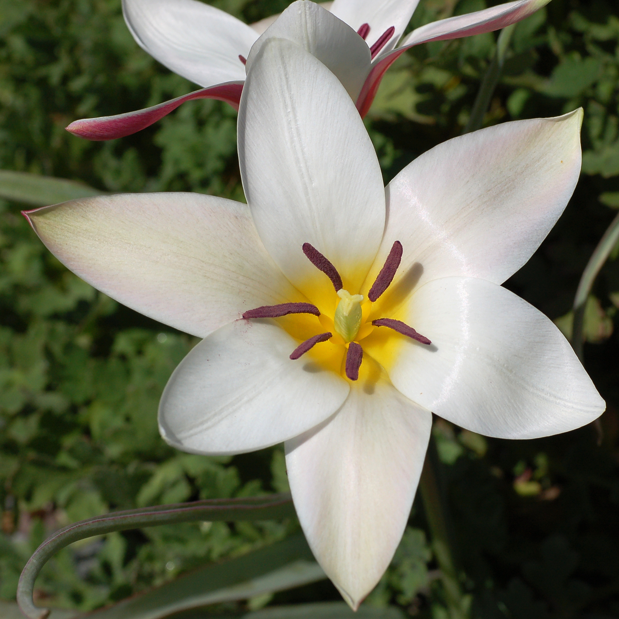 A picture of the Tulipen (Tulipa clusiana en 'Lady Jane') flower. Photo taken in the Rock Ledge at the Chanticleer Garden where it was identified.